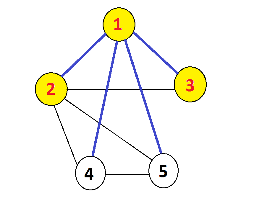 Duyet_dinh1